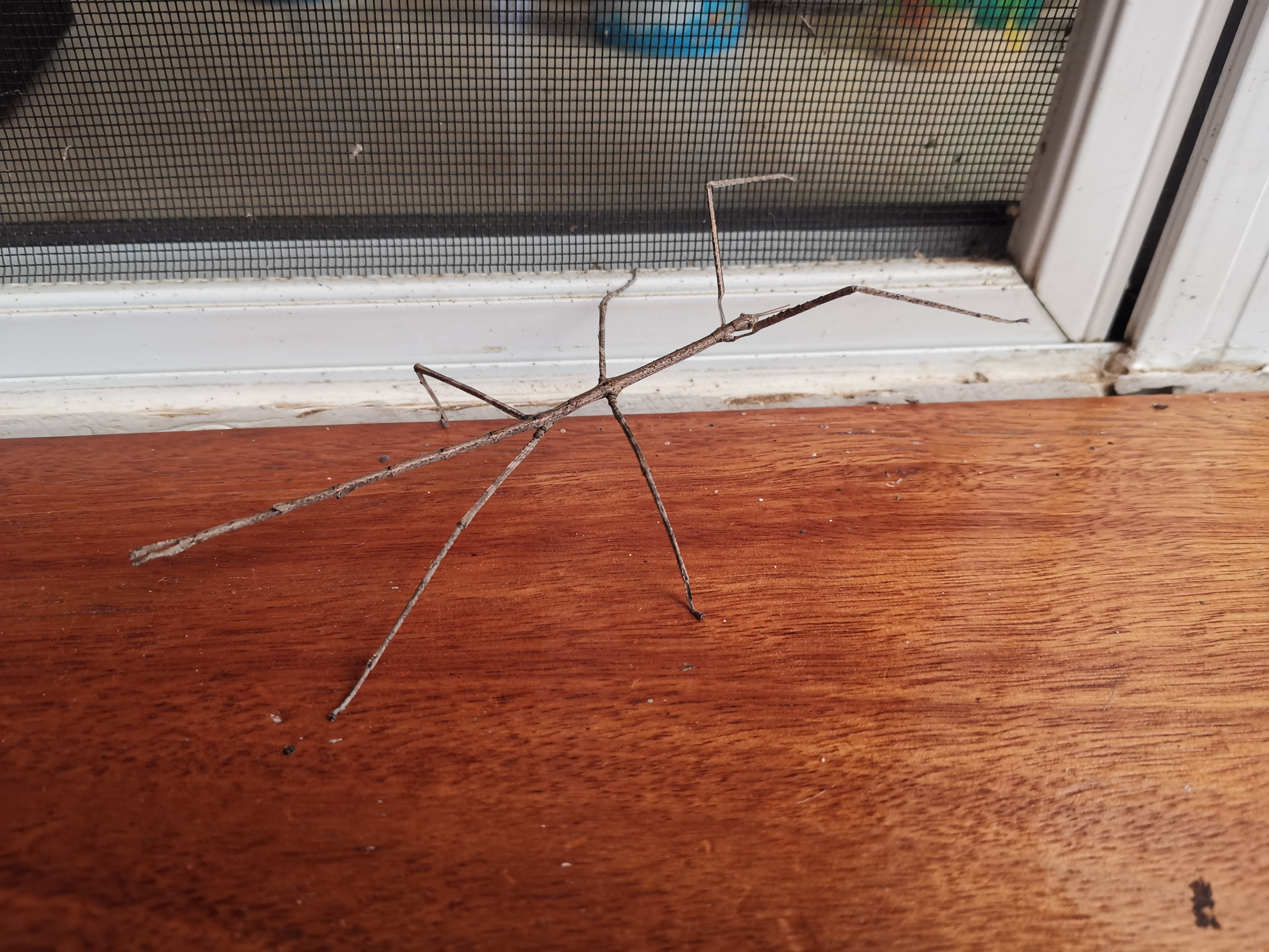 A Ctenomorphodes Chronus stick insect as seen in Sydney, with window fly screen for scale.